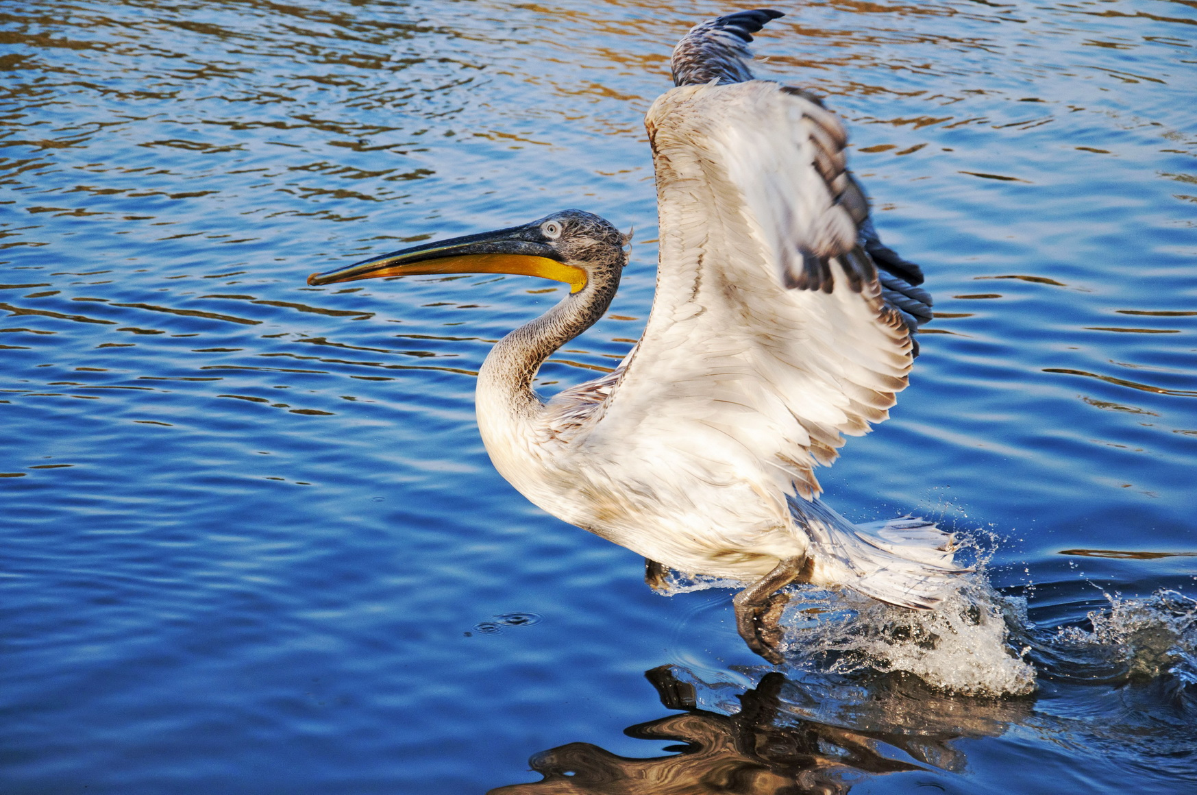 Dalmatian Pelican (lat. Pelecanus crispus) - more than a pink Pelican,distinguished by the absence of pink tones in the plumage. On the head and the upper side of the neck are long and twisted «curly» feathers,which form the likeness of a mane. Takes off fairly easily, pushes the water with both feet, but when in throat bag there is a catch, gets up with difficulty.